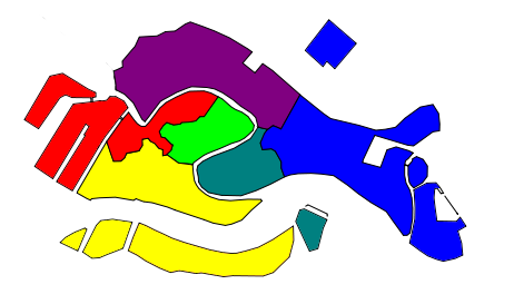 Districts of Venice